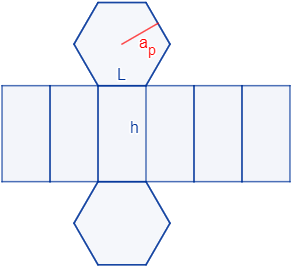 Net of a hexagonal prism: 8 faces, 18 edges, and 12 vertices.